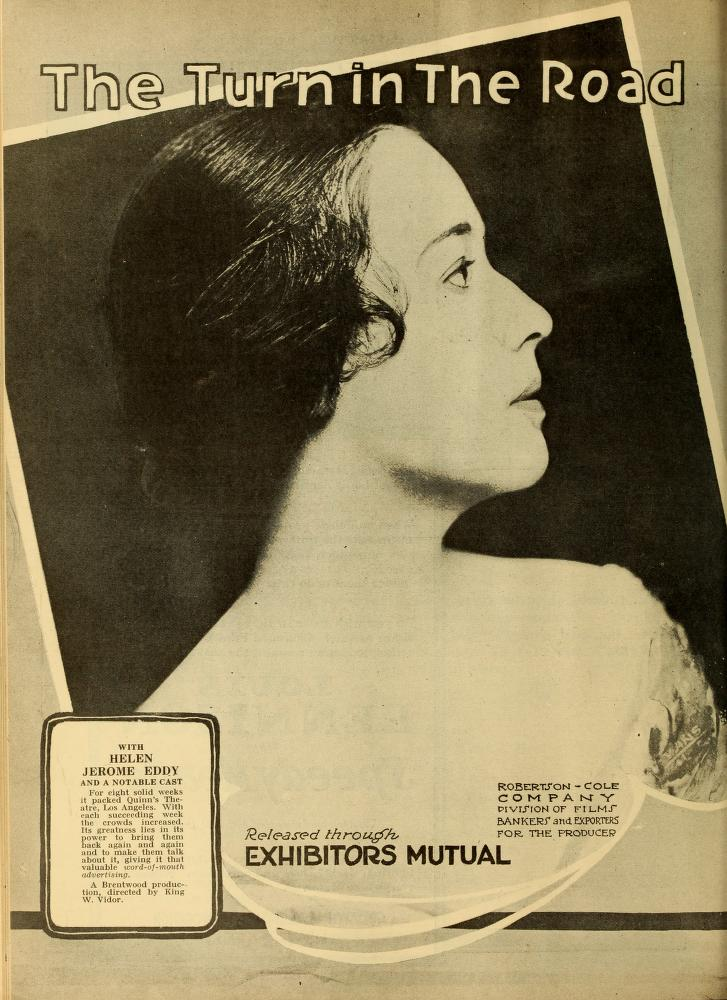 Advertisement, Moving Picture World, March 1919 the film The Turn in the Road (1919) with Helen Jerome Eddy.